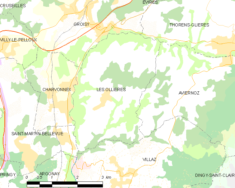 Map of French municipality Les Ollières